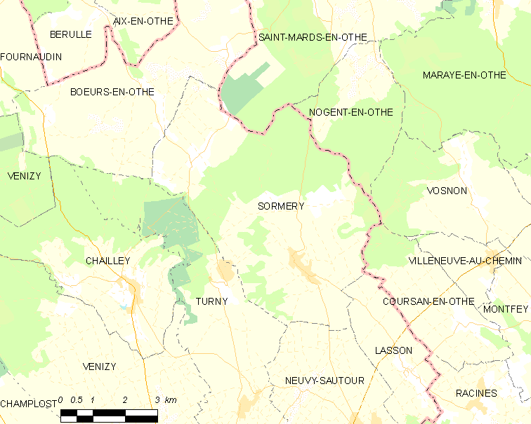 Map of French municipality Sormery